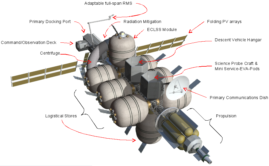 Three dimensional view of the Extended Duration explorer version of Nautilus-X.